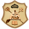 Malankara Orthodox Syrian Church Emblem